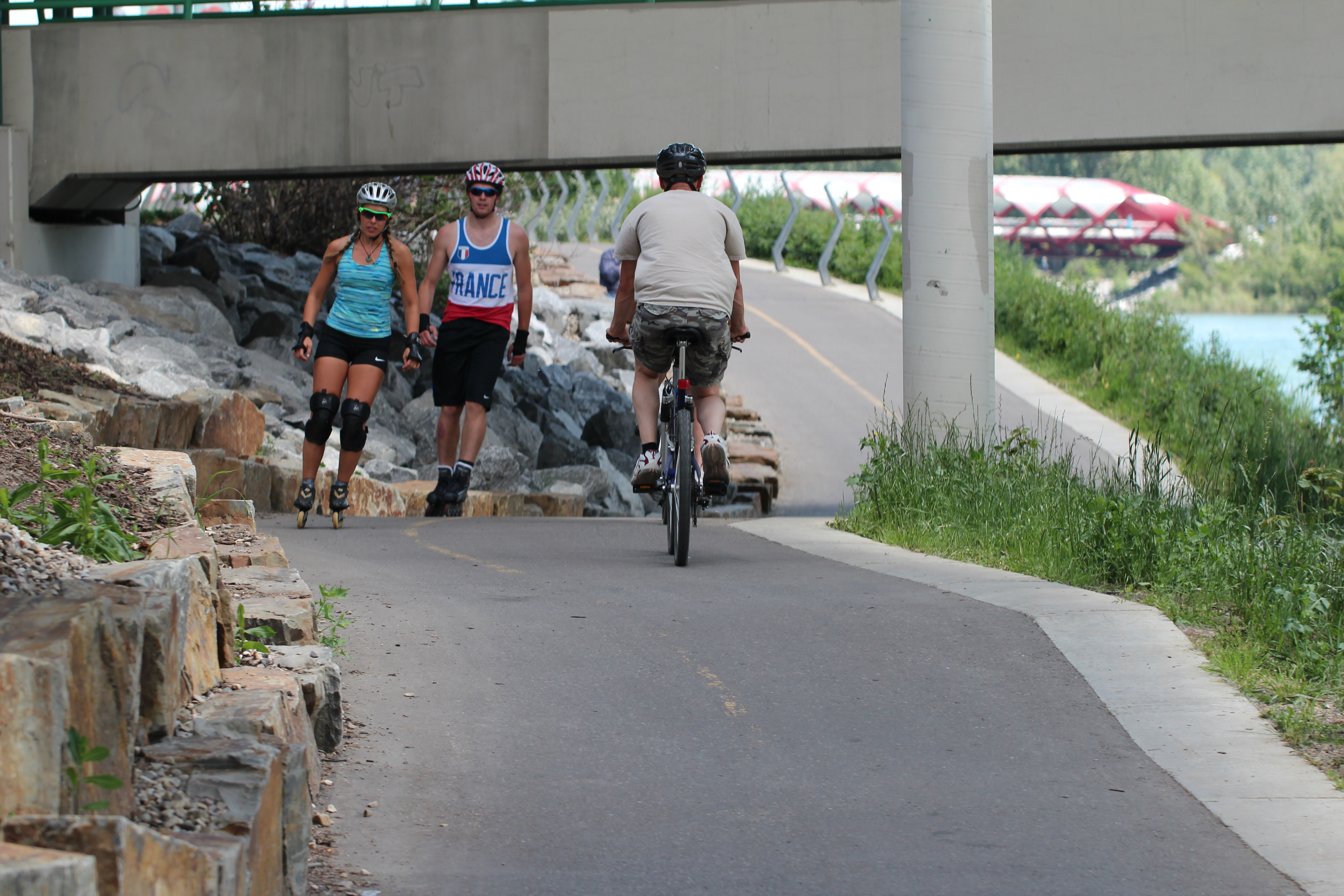 Lots of people out enjoying the pathways.